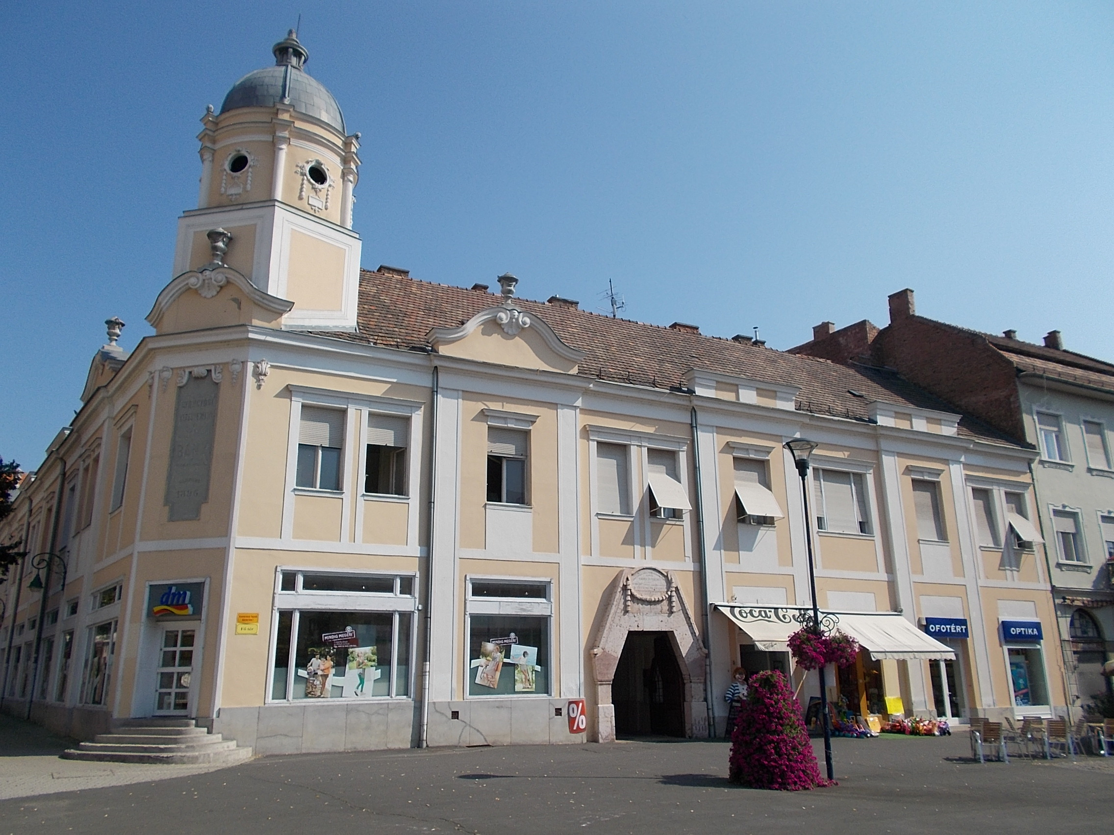 Former Luby-house and Commercial Bank Headquarters. Listed 5675. - 8, Fő square, Gyöngyös , Heves County, Hungary